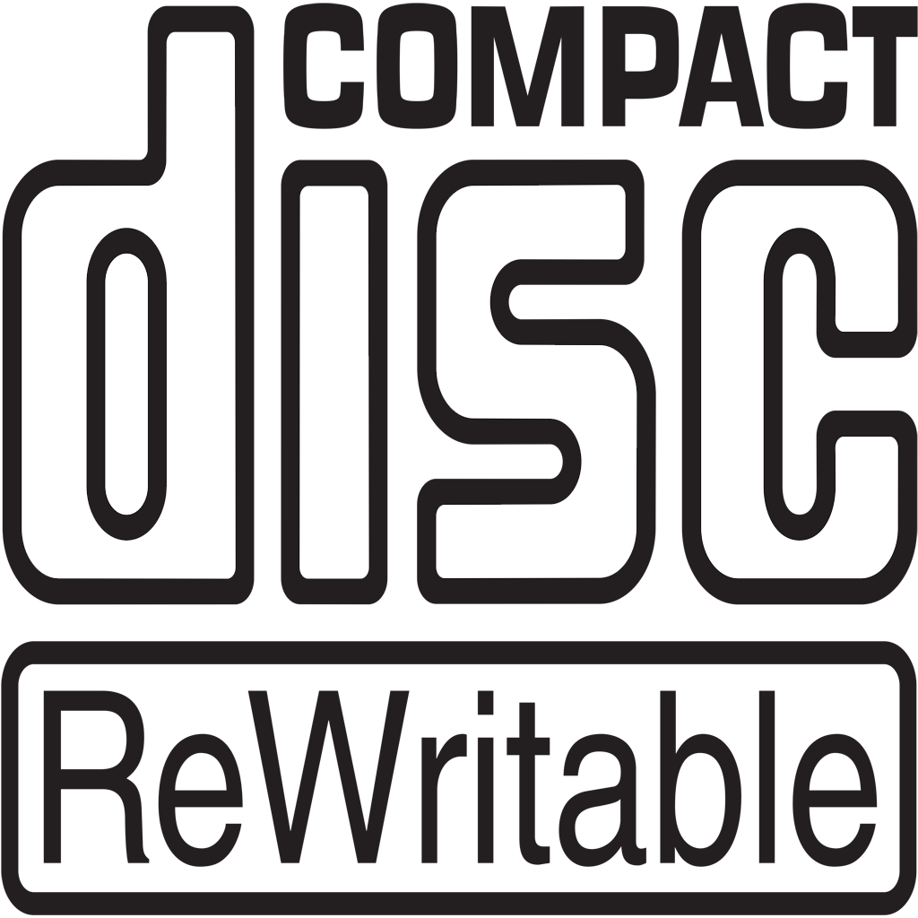 CD-RW logo